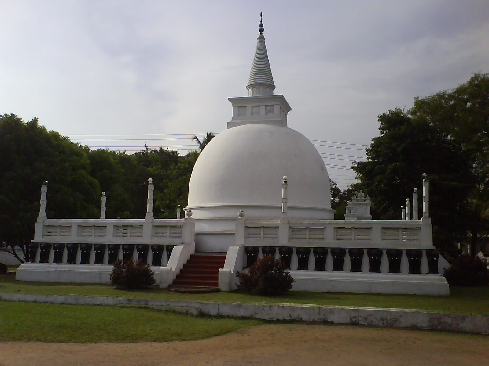 Bauddhaloka Buddhist Temple, Kurunegala, Sri Lanka